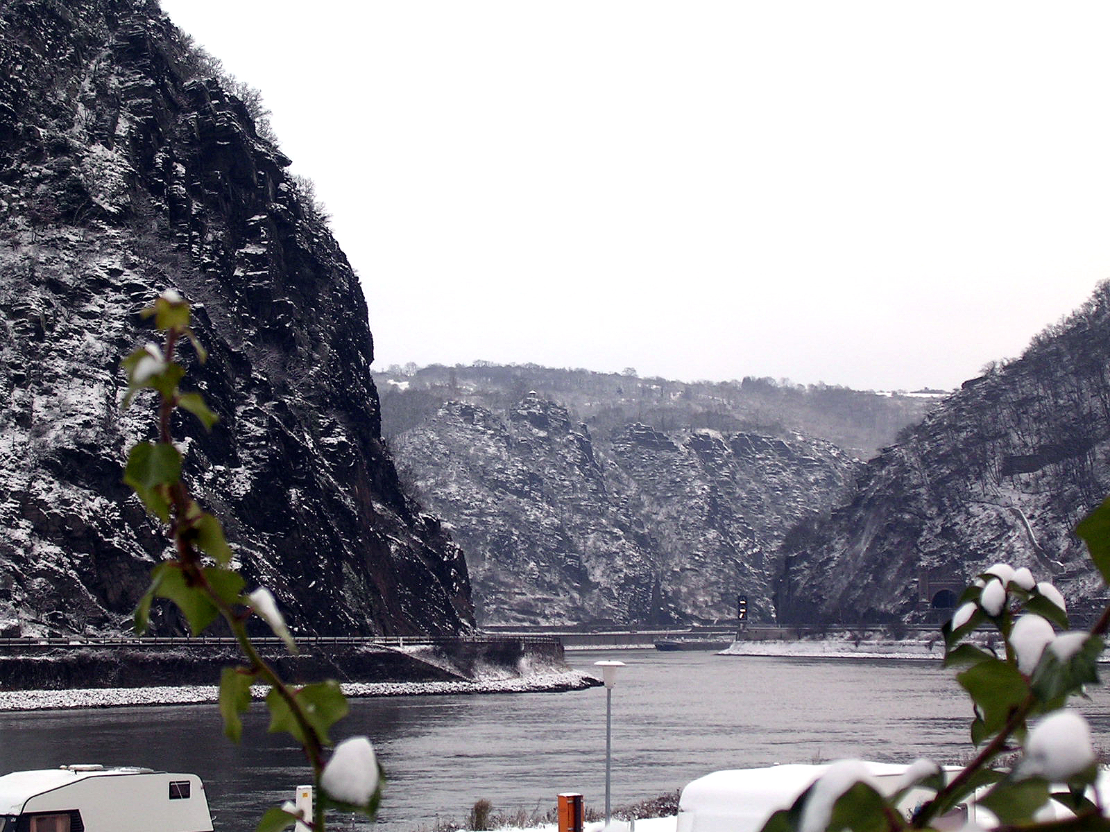 Loreley Rock near St. Goar, Germany, covered by snow